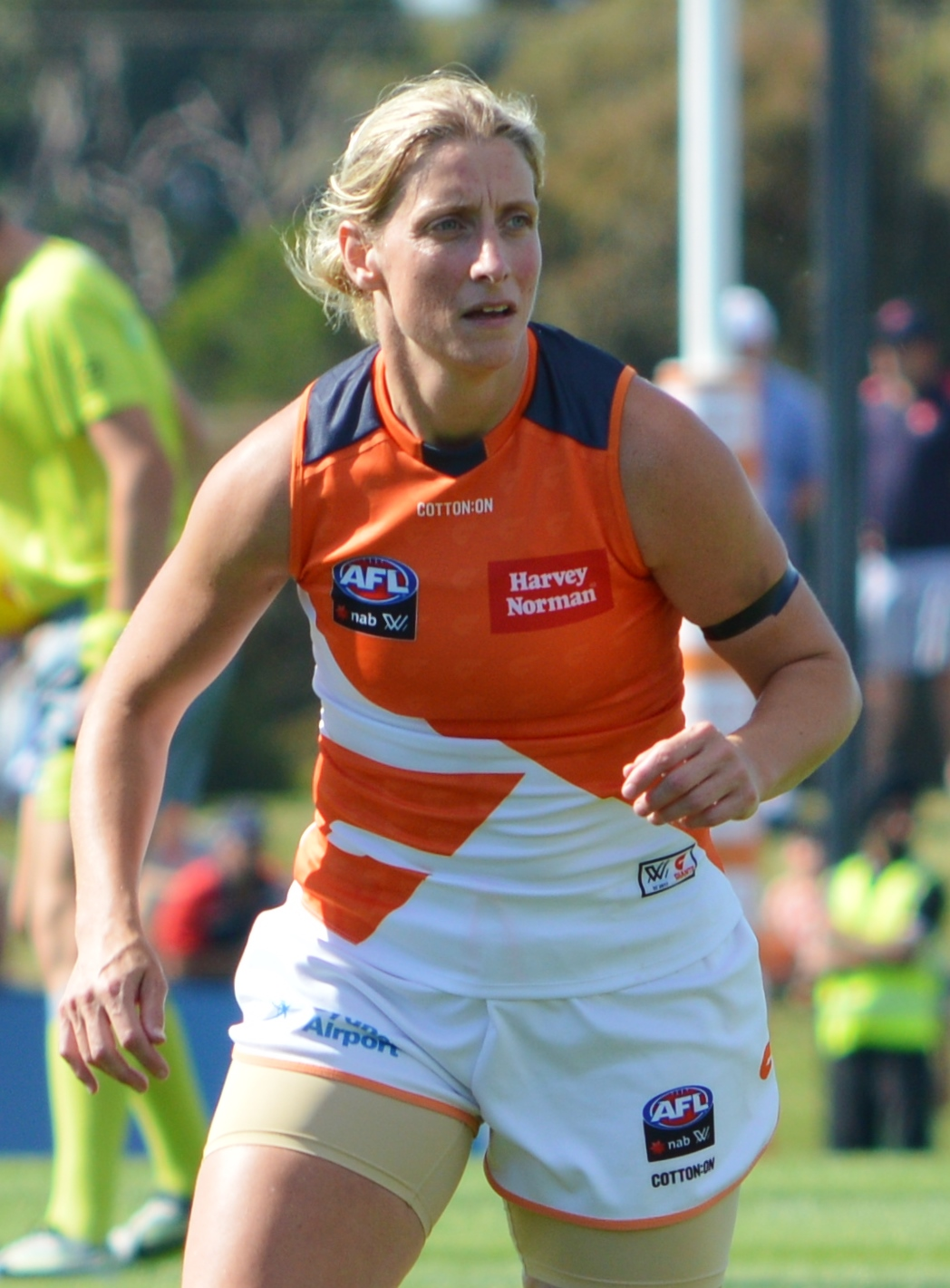 Cora Staunton during the round 1, 2018 AFL Women's match between Melbourne and Greater Western Sydney